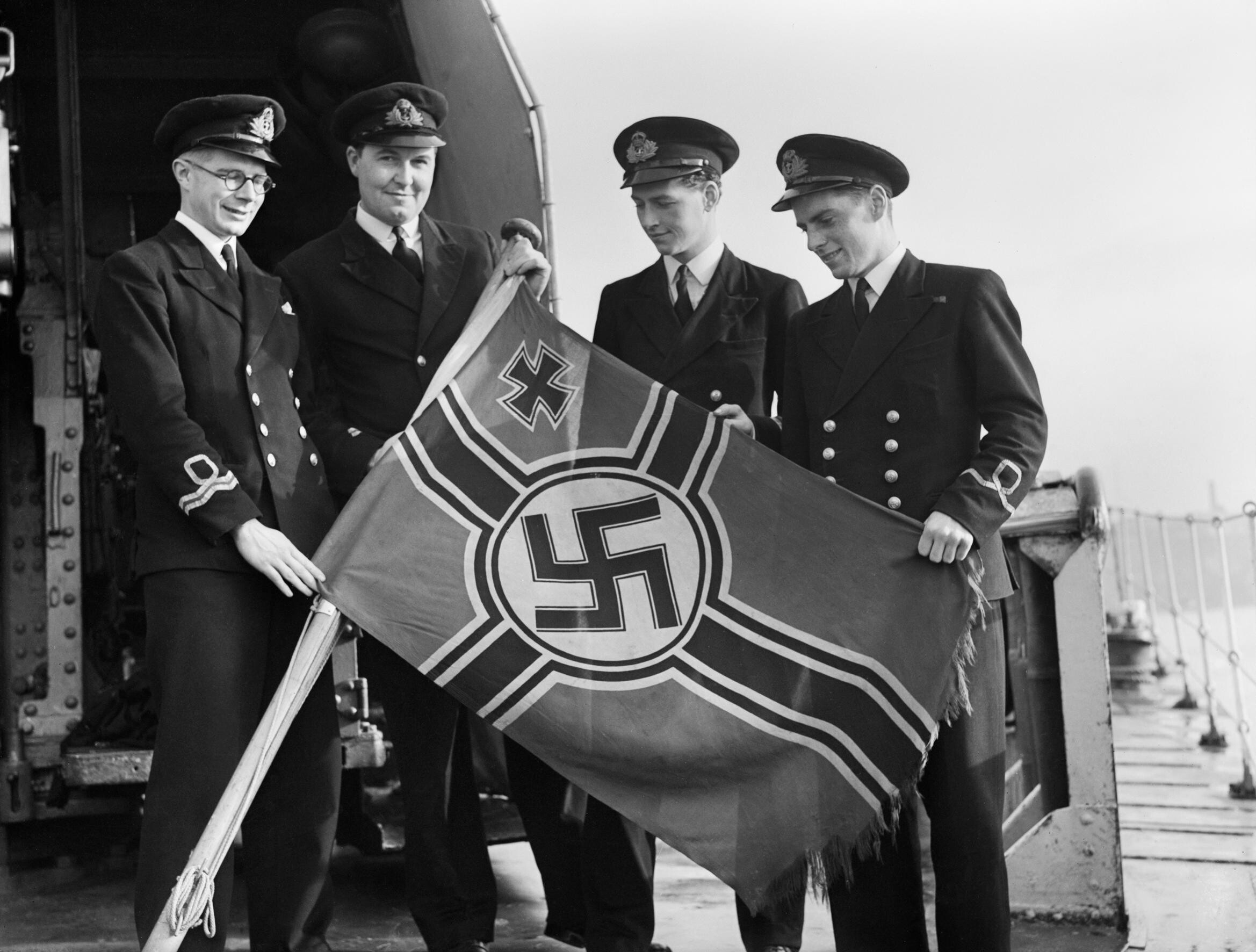 Royal Navy officers aboard the destroyer HMS GARTH with a captured German E-boat ensign at Sheerness, 21 October 1944. With German ensign captured from an E-boat: Surgeon Lieutenant R G Moore, RNVR, of Exmouth, Devon; Lieutenant D G Bilsand, RNVR, of Sheerness; Sub Lieutenant J G L Jackson, RN, of Bilbury, Glos; and Sub Lieutenant I A Weatherseed, RNVR, of St Leonards, Sussex all veterans of the famous E-Boat hunting destroyer HMS GARTH which is off Sheerness.